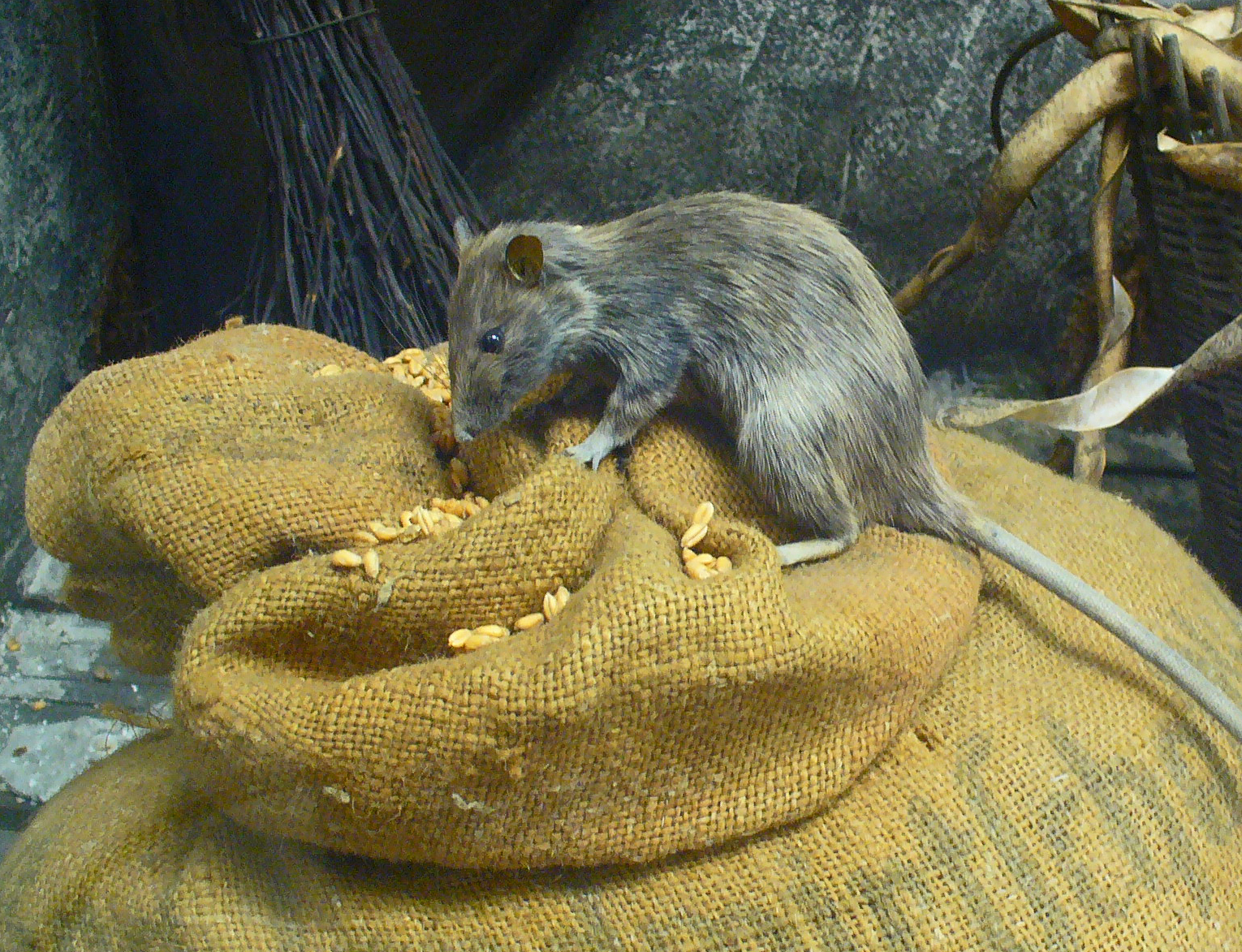 Black Rat, Ship Rat, Roof Rat, House Rat, Alexandrine Rat, Old English Rat; Staatliches Museum für Naturkunde Karlsruhe, Germany.